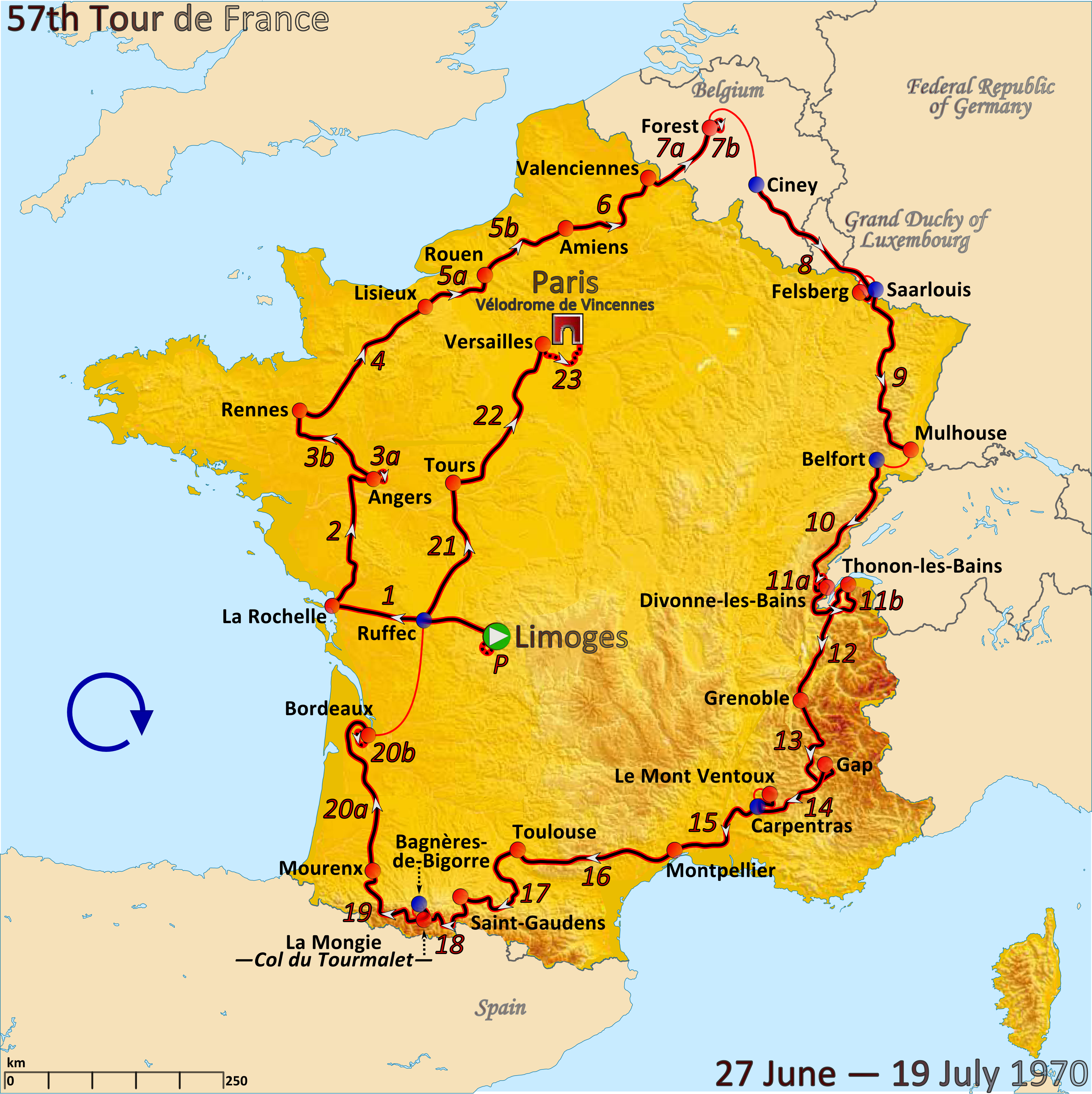 Map of the 1970 Tour de France created in Inkscape using accurate stage maps from touratlas.nl.